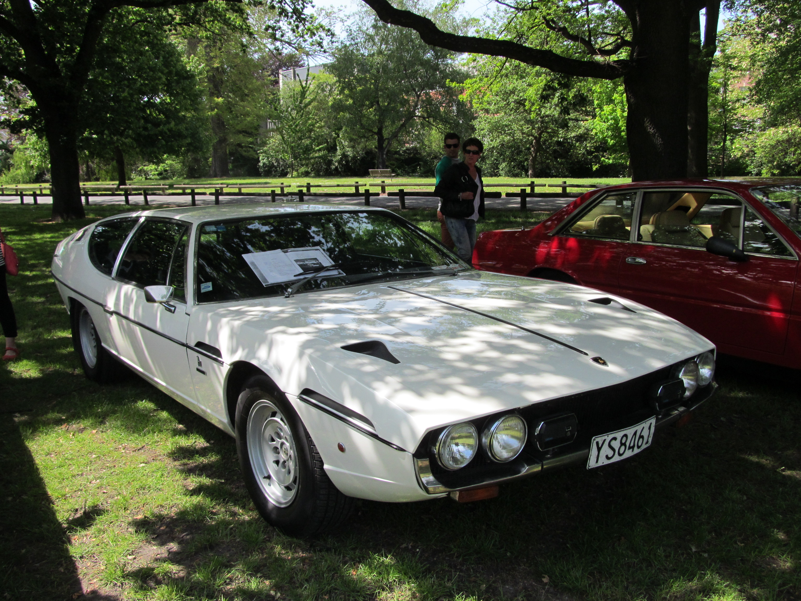 This exotic supertourer has been in NZ since 1980 - God knows who would have had the funds to bring this in back then! I expect this one, being RHD, came from the UK.